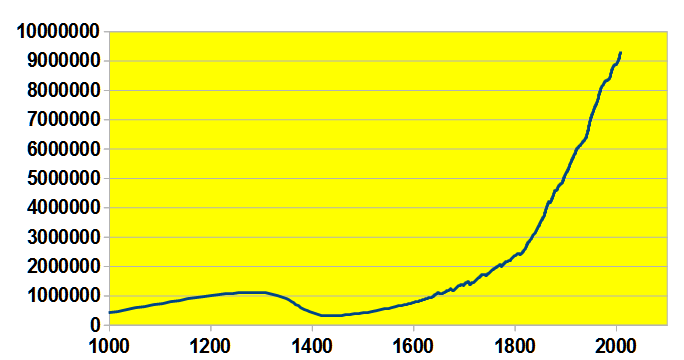 Swedish population